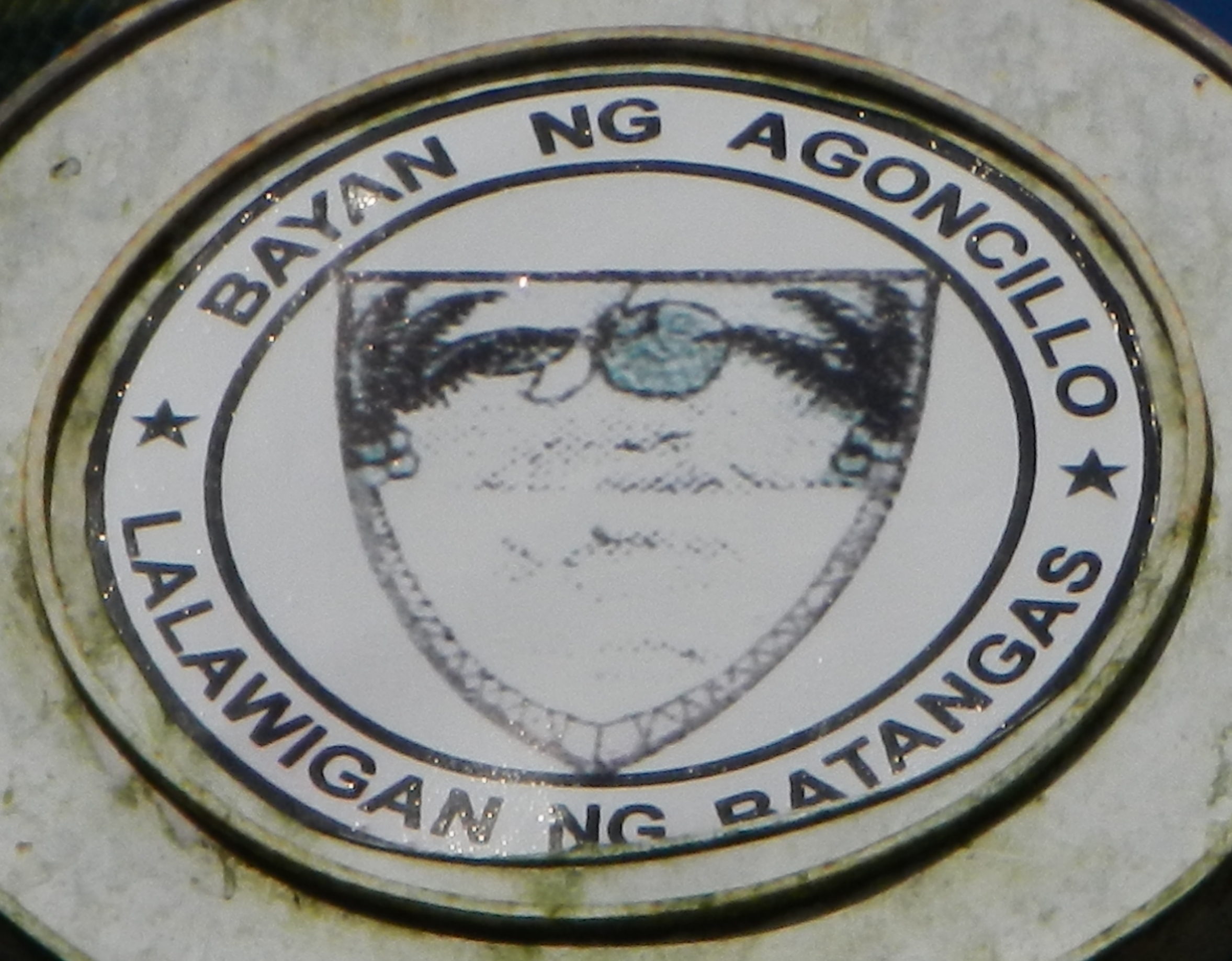 Official seal and logo, from the Welcome arch of - Agoncillo, Batangas[1]